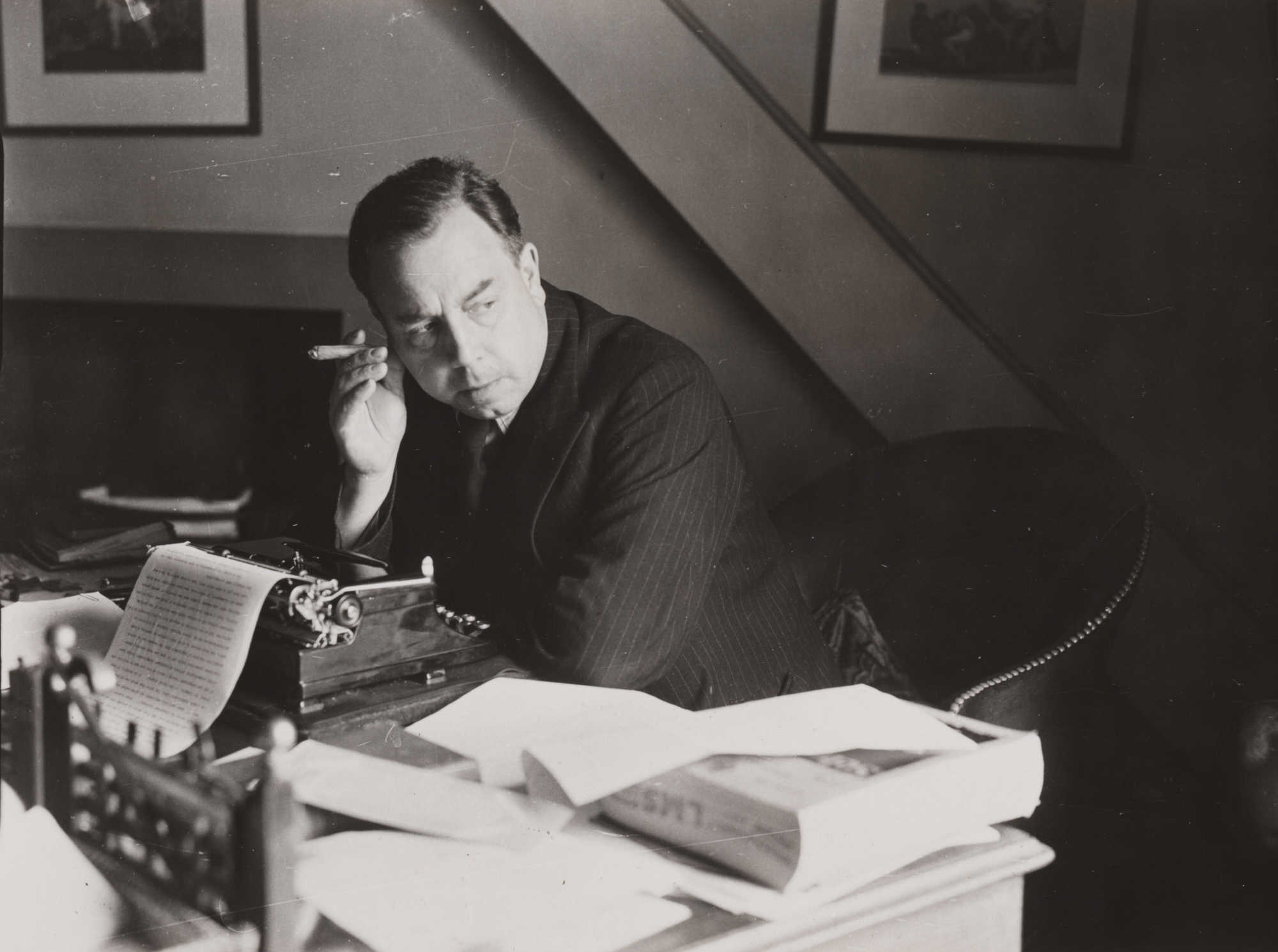 Daily Herald Archive at the National Media Museum A photograph of writer J B Priestley (1894-1984) at work in the study at his home in Highgate, London. Amongst Priestley’s literary successes is the novel The Good Companions from 1929 and the popular drama An Inspector Calls from 1945. This photograph has been selected from the Daily Herald Archive, a collection of over three million photographs.